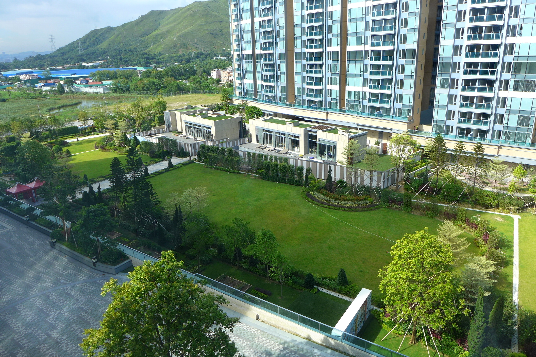 Park YOHO Green area